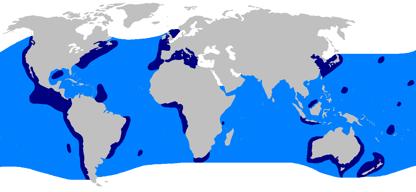 Distribution of the pelagic stingray (Pteroplatytrygon violacea), based on Last and Stevens (2009) and Mollet (2002)